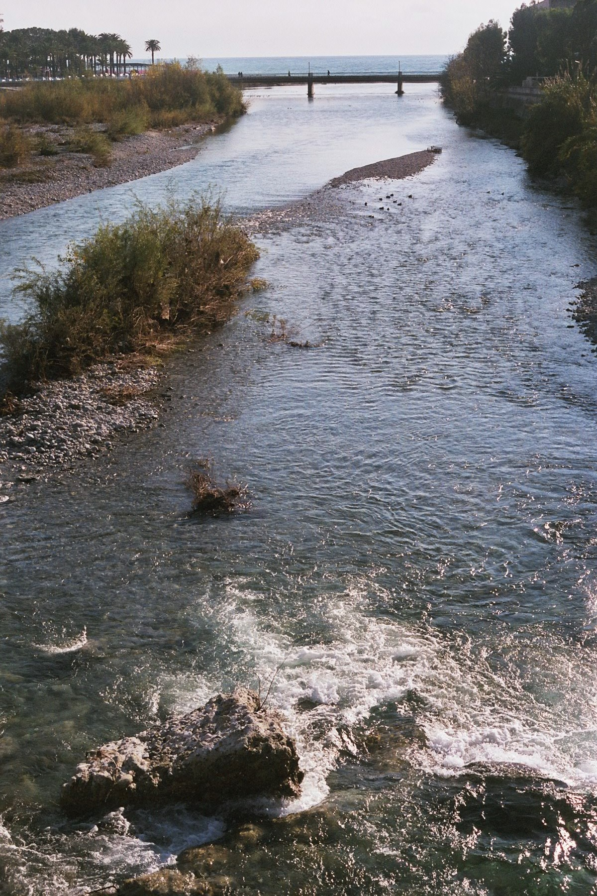 The Roja River at the Italian city of Ventimiglia in Liguria, on the border with France.